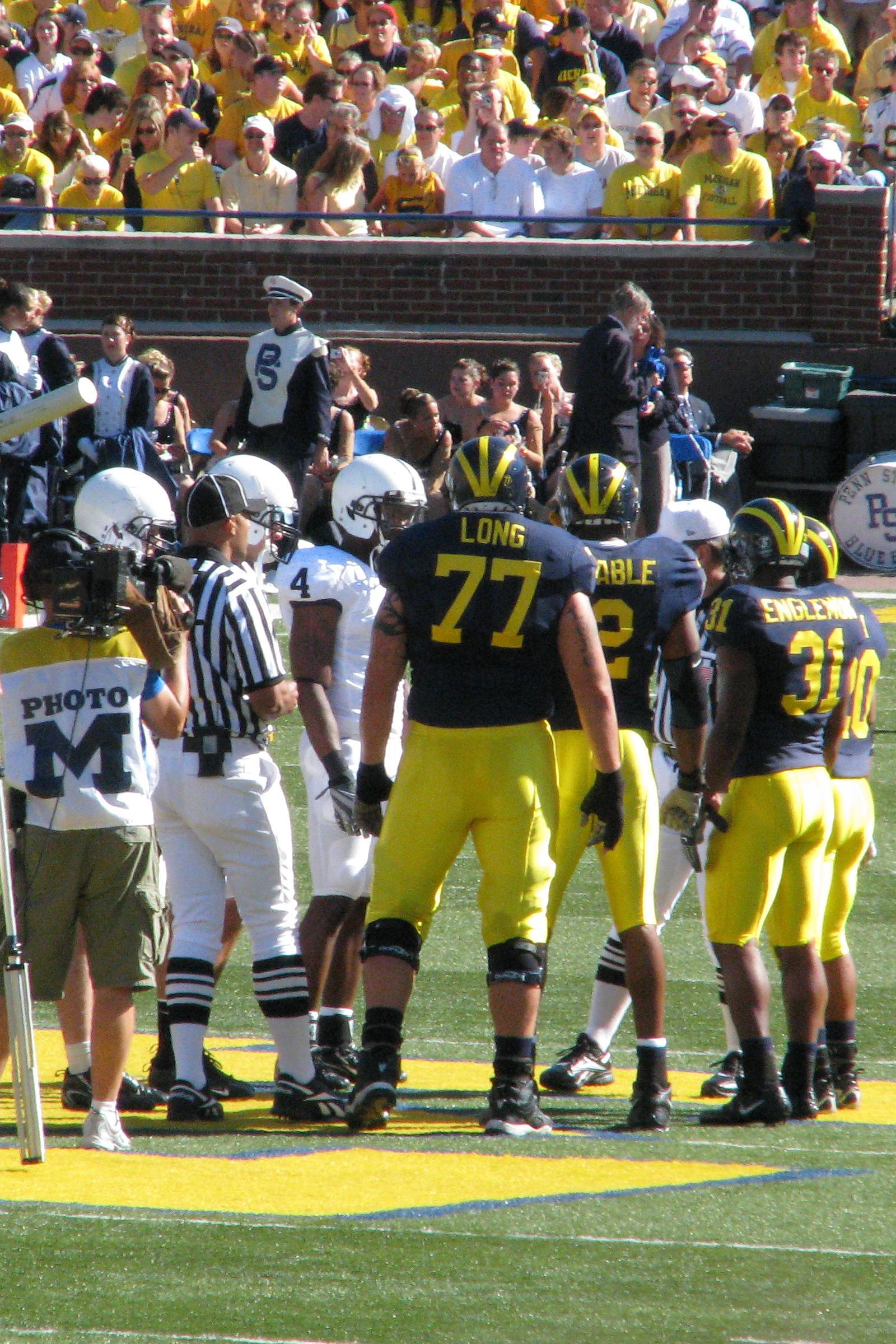 Jake Long, Shawn Crable, Brandon Englemon, and Mike Hart during coin toss against w:2007 Penn State Nittany Lions football team